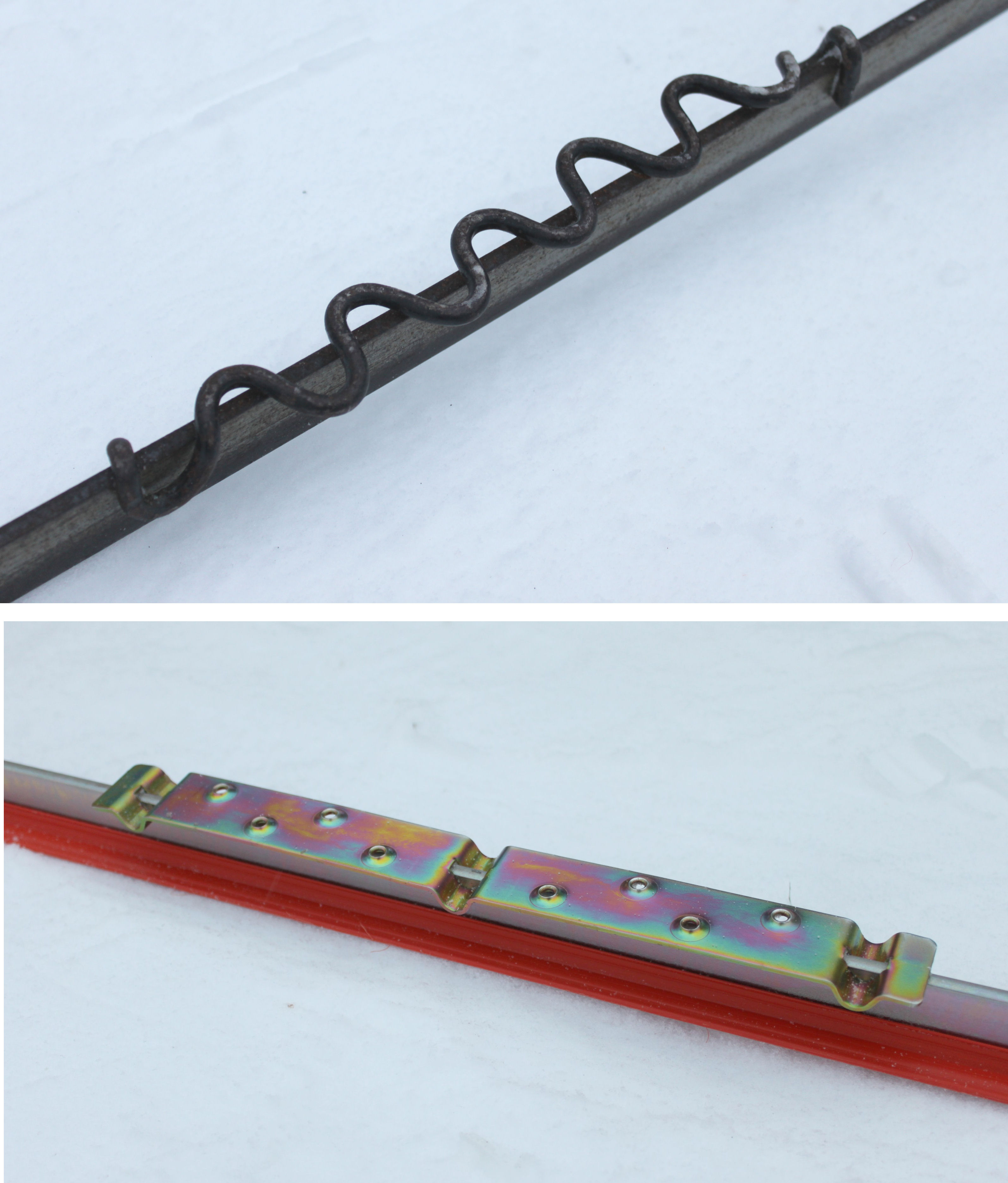 Two kinds of footrest for kicksleds